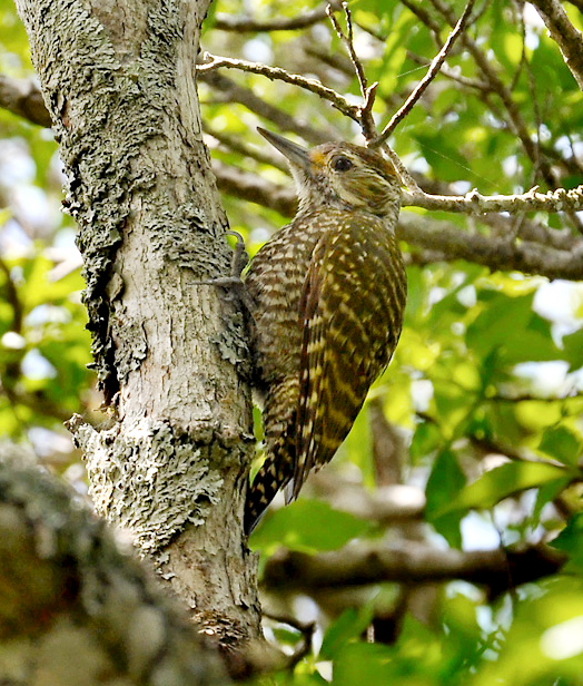 Veniliornis spilogaster male photographed in the Negra Lagoon border, Uruguay, in November 2010.